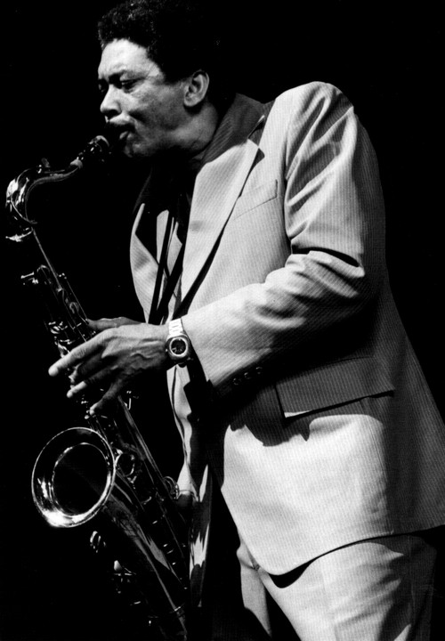 American tenor saxophone player Lee Allen in Paris, France